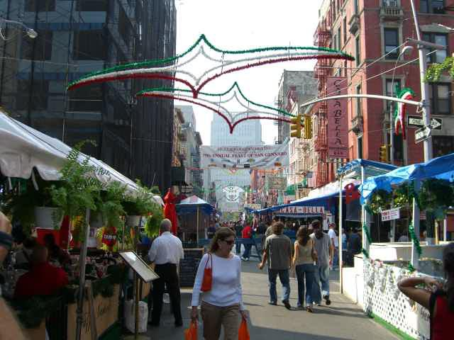 View facing south on Mulberry Street in Manhattan's Little Italy. Taken September 19, en:2006 during the Feast of San Gennaro by Nightscream.